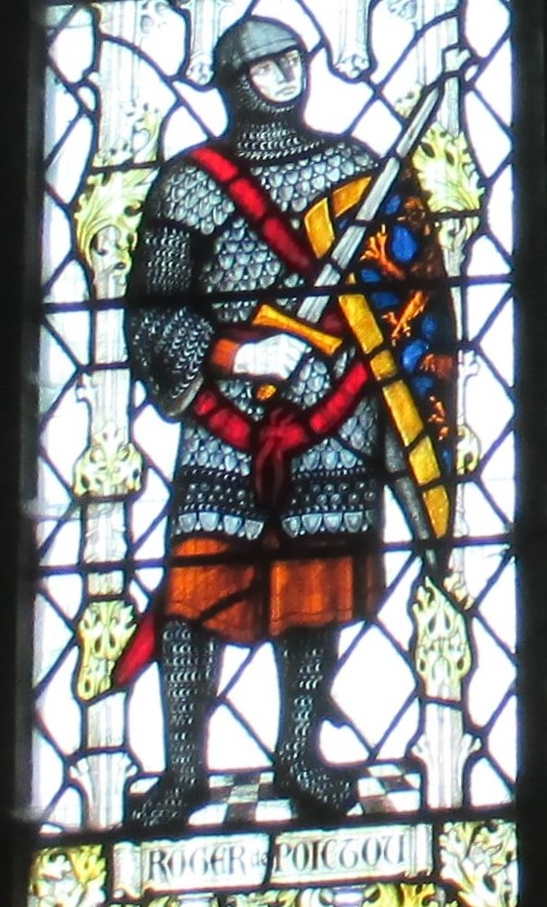 Detail of a stained-glass window in Lancaster Priory, Lancaster, Lancashire. It depicts Roger the Poitevin.